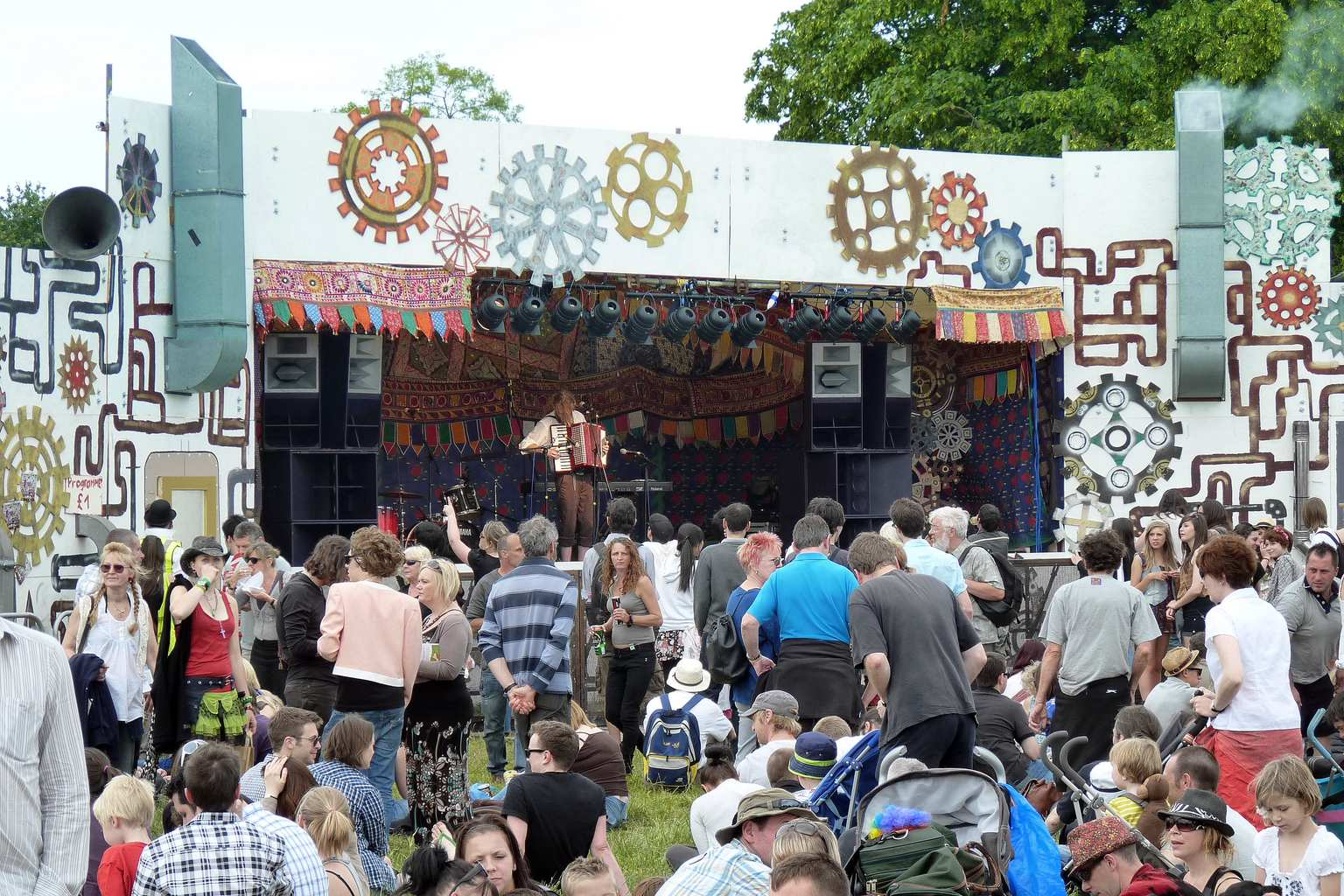 The steampunk-themed stage at Strawberry Fair 2011 in Cambridge, England.